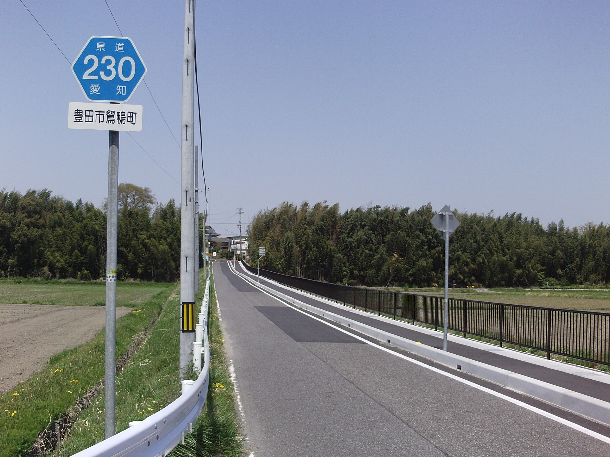 Aichi prefectural road No.230 in Oshikamocho, Toyota, Aichi.